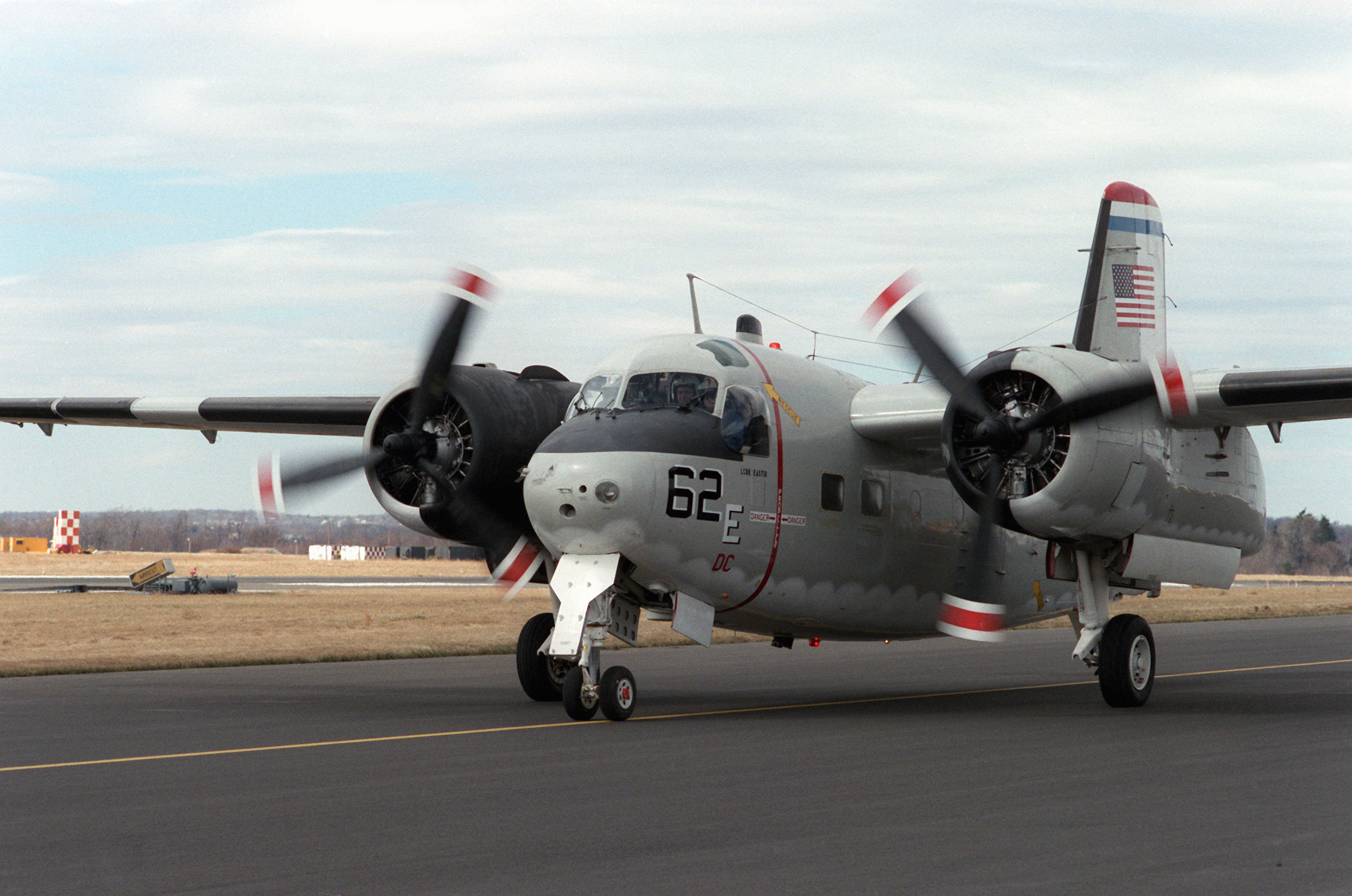 A U.S. Navy Grumman C-1A Trader carrier on-board delivery (COD) aircraft taxiing at Naval Air Station, Willow Grove, Pennsylvania. The Trader was to be retired from service due to the fire hazard created by storing its high-octane fuel aboard ship.